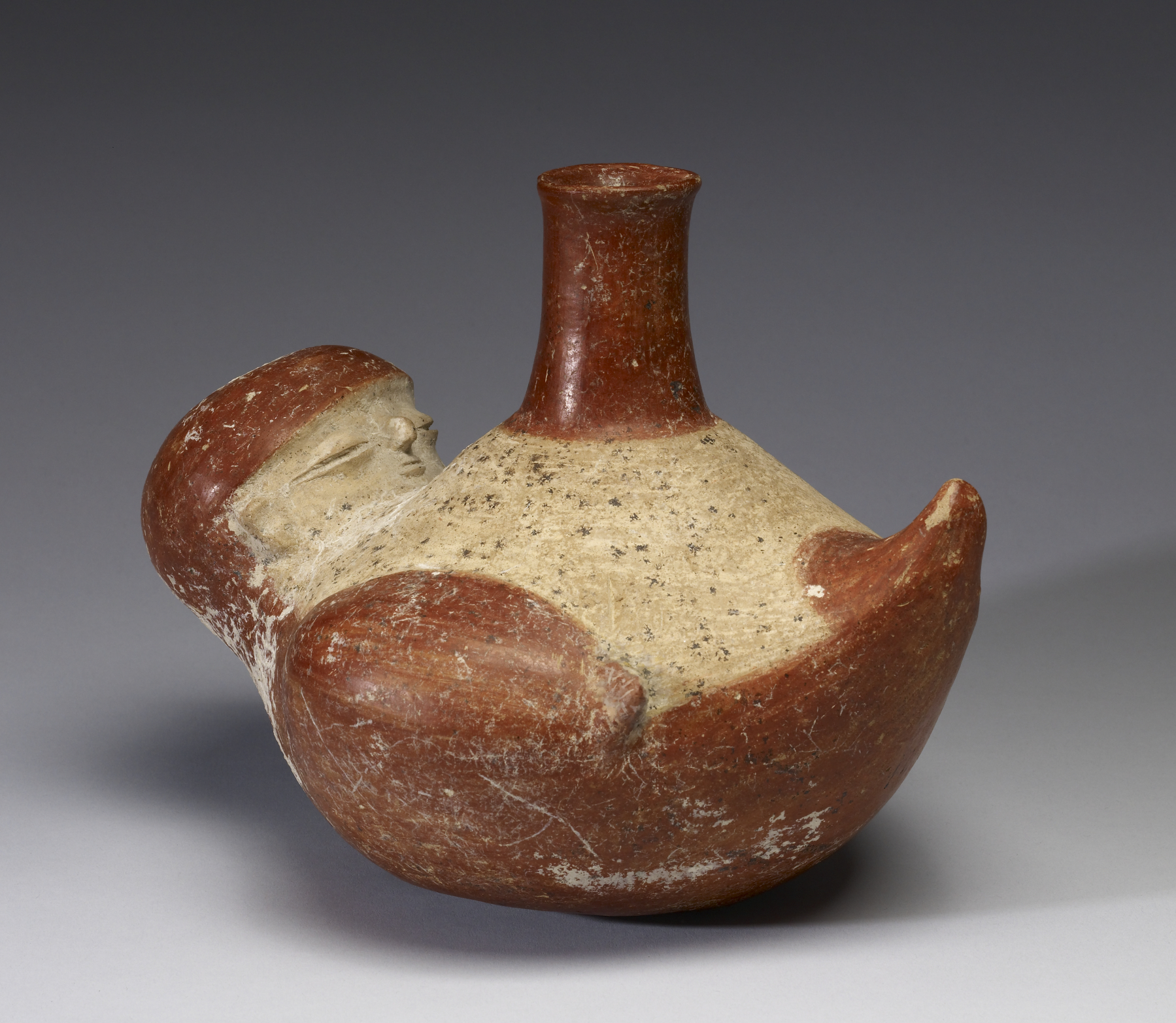 Chorrera culture (1800-300 BCE) ceramics are considered the hallmark of the civilization that arose in the wake of Valdivia culture along the coastal provinces of Esmeraldas, Manabí, Guayas and Los Ríos. Notable technological advances in ceramics were made, and a profound stylistic unity in all art forms was achieved. Artists aimed at creation of objects beyond ordinary need. Chorrera art signals a movement from objects used in ritual, to objects that became the focus of ritual. Sculptural ceramics are larger and more elaborate in form. The conceptual focus of Chorrera ceramics is primarily on the natural state of things. Potters excelled in figural sculpture, animal and plant effigy vessels, and whistling vessels. This vessel is a spherical red bottle marked by a single spout or neck. The vessel body forms the belly of a composite avian-human lying on its back. The 'bird man's' features- a human head, opposing wings, and tail feathers- are modeled to the sides of the vessel wall, creating a balanced, symmetrical form. The white painted belly and face of the creature provide visual contrast and draw attention to its upraised head. Additional contrast is lent by the gloss of the red paint against the matte finish of the white. Large so-called coffee bean eyes, and diminutive nose, mouth, and ears, conventional to Chorrera figural sculpture, characterize the creature's face.